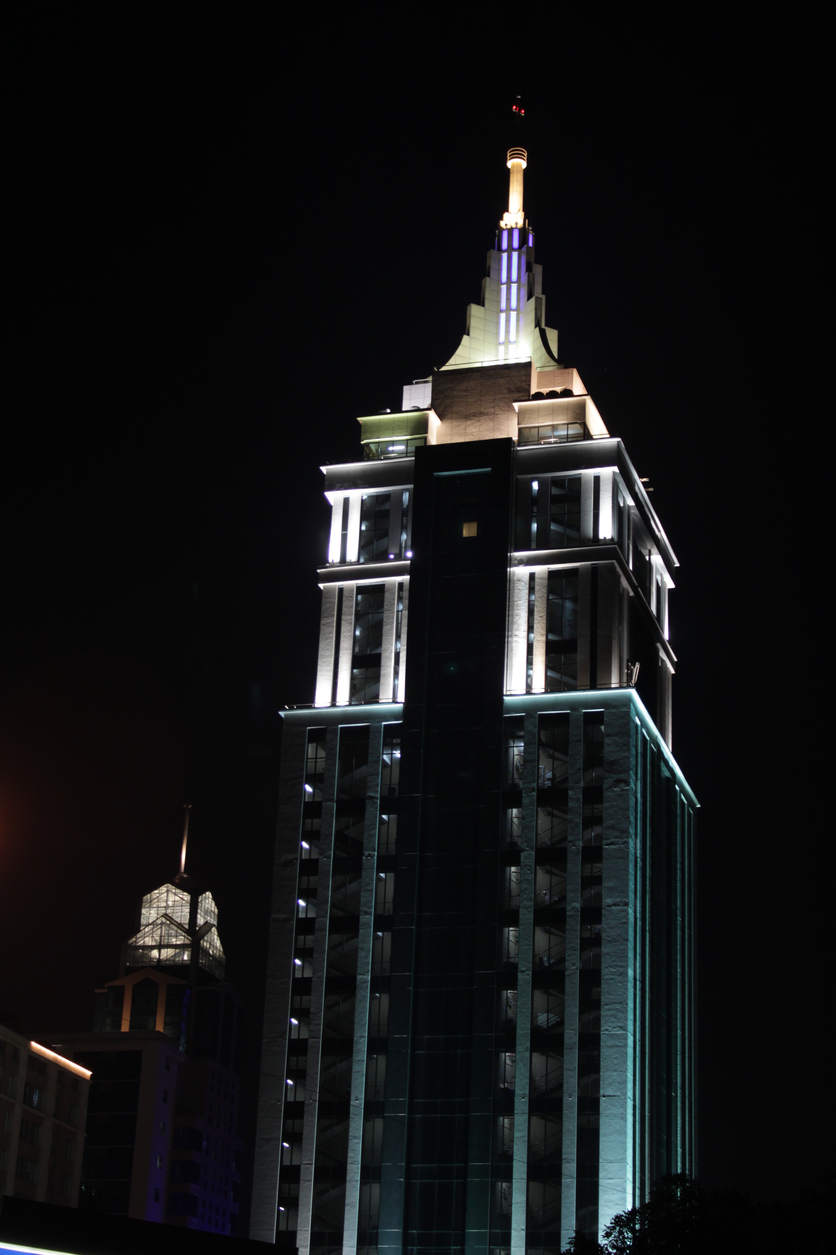 One of the towers in the night.